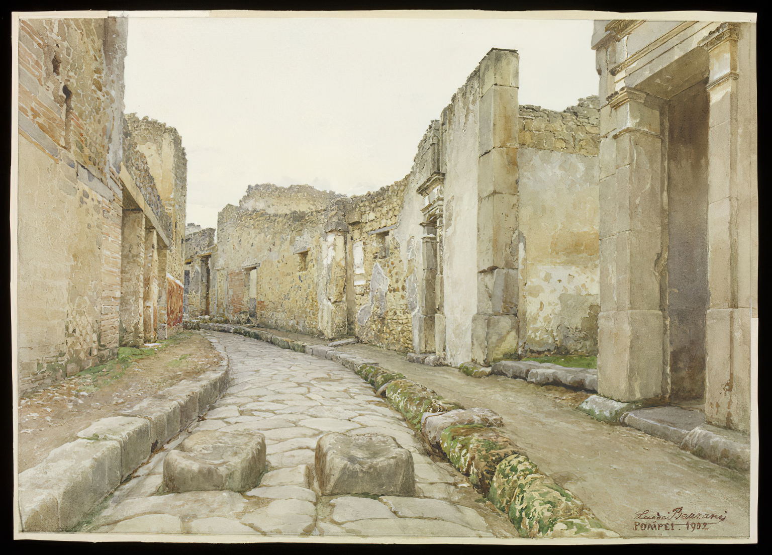 Street in Pompeii watercolor by Luigi Bazzani. Currently housed in the Victoria and Albert Museum in London, England.